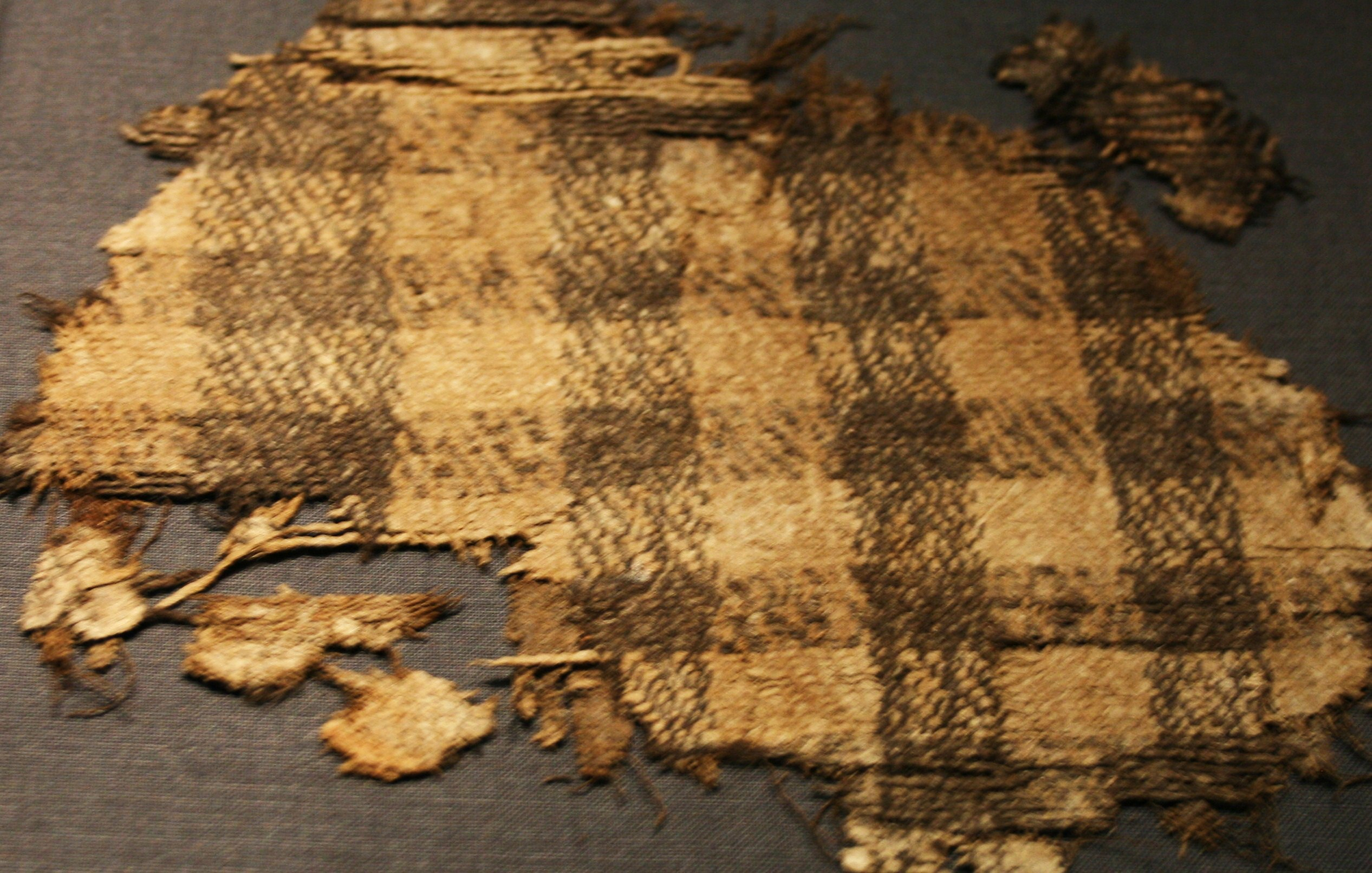 Woven textile found in the Oseberg boat mound grave in the county of Vestfold, Norway. Dates to 834 CE. Please attribute Saamiblog